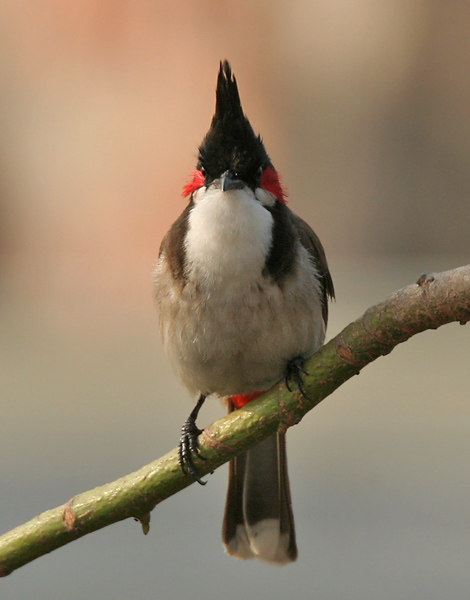 Red-whiskered Bulbul Pycnonotus jocosus in Kolkata, West Bengal, India.